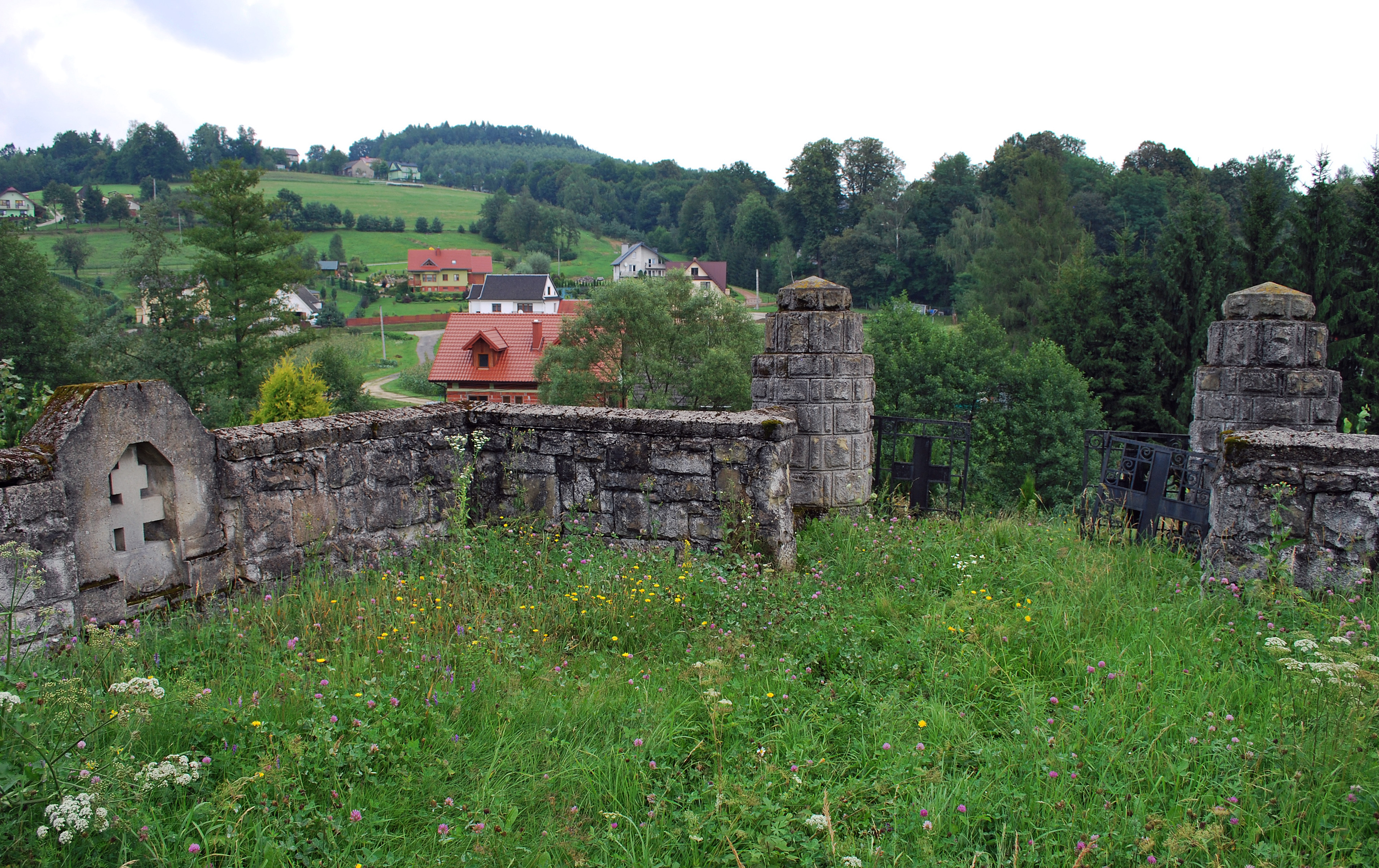 WWI, Military cemetery No. 295 Paleśnica, (1) Paleśnica village, Tarnów county, Lesser Poland Voivodeship, Poland